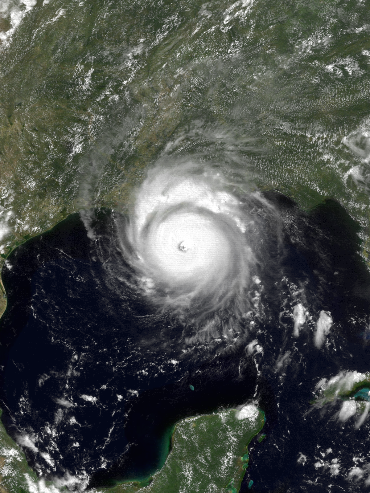 Hurricane Andrew on August 25, 1992